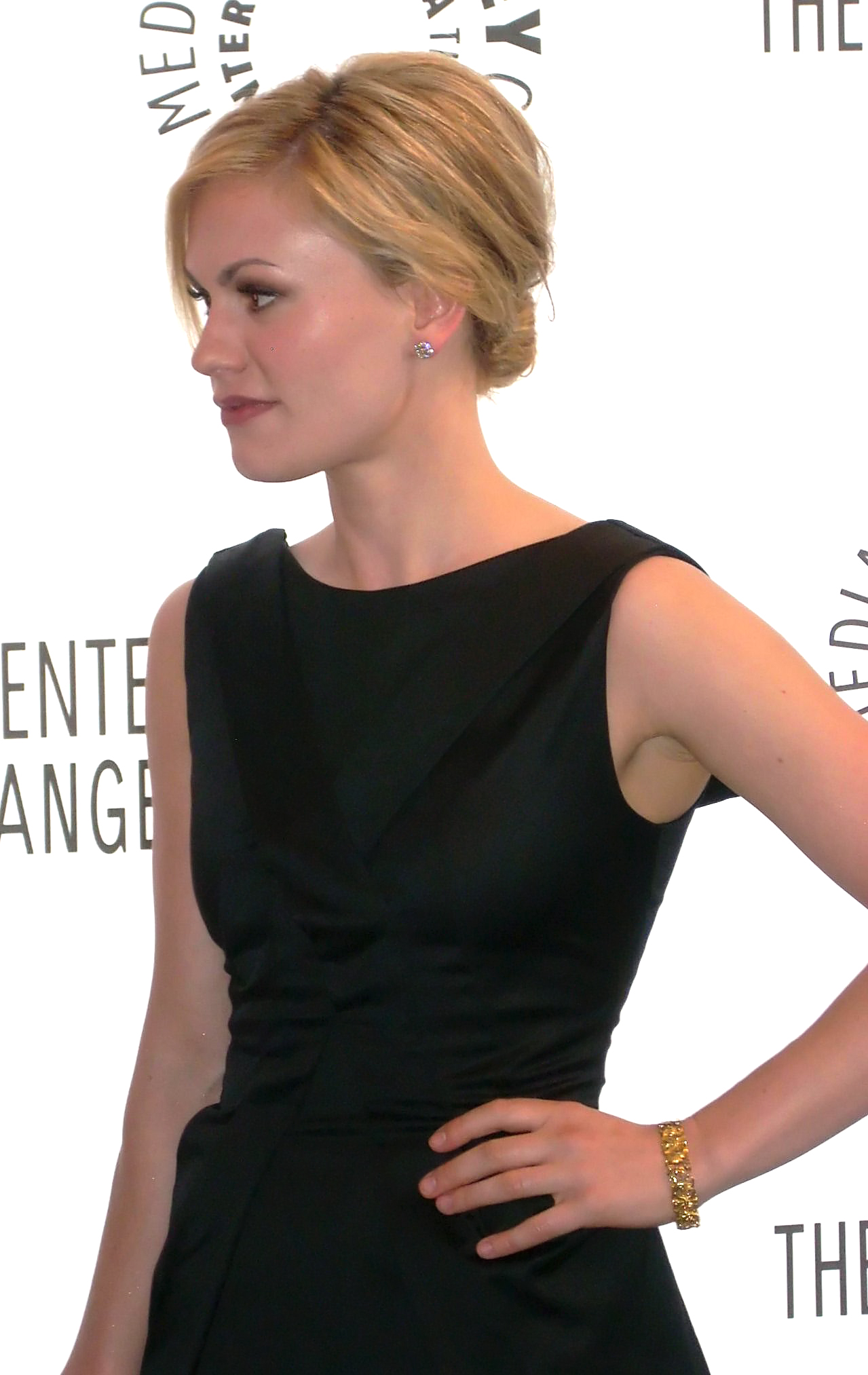 Actress Anna Paquin - "True Blood" 25th Annual Paley Television Festival - ArcLight Cinemas, Los Angeles.